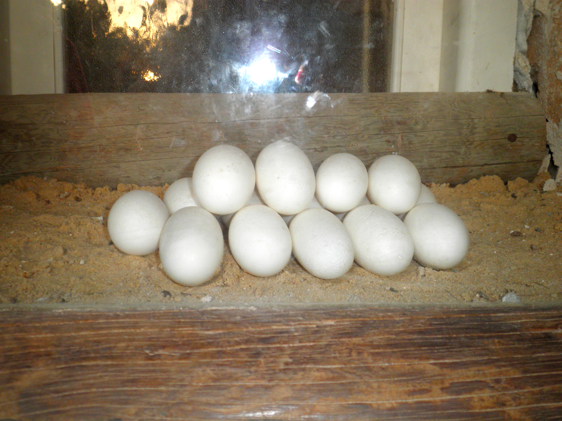 Eggs of Crocodylus niloticus, Djerba Explore crocodile farm, Djerba island